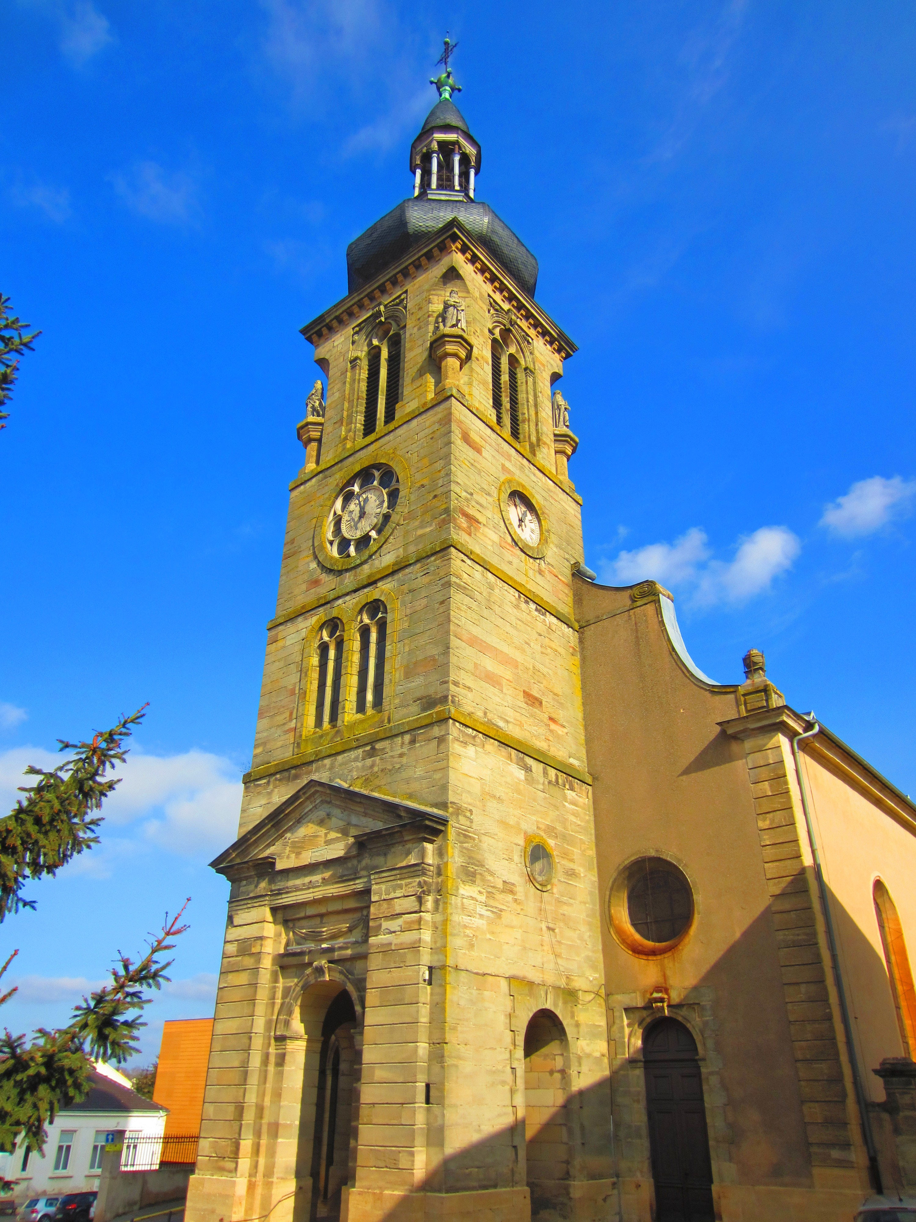 Boulay Moselle church